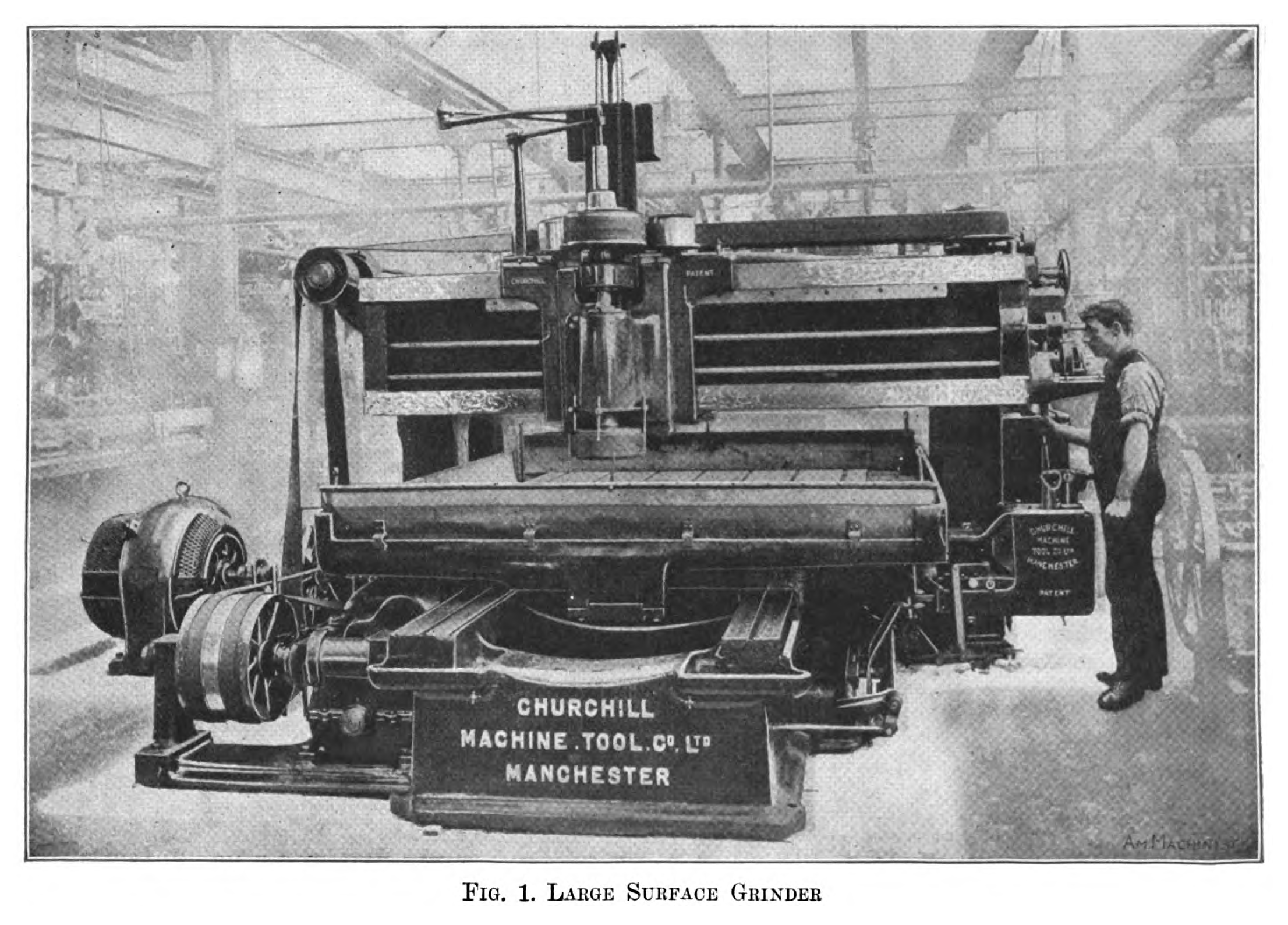 Churchill Machine Tool Co. Ltd. grinder built 1912/13 Pendleton, UK